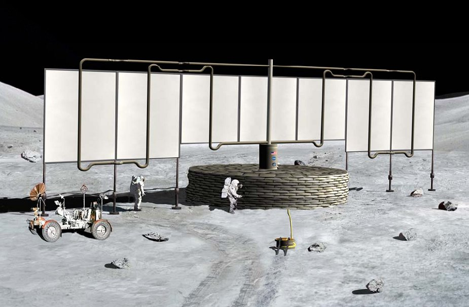 Lunar Fission Surface Power System Design and Implementation Concept from project Prometheus late studies